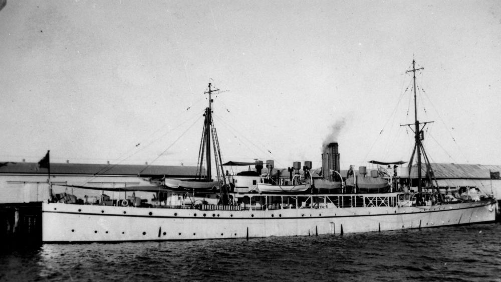 Moresby (ship) H.M.A.S. Moresby at Bowen Jetty, 1930's. (Description supplied with photograph).